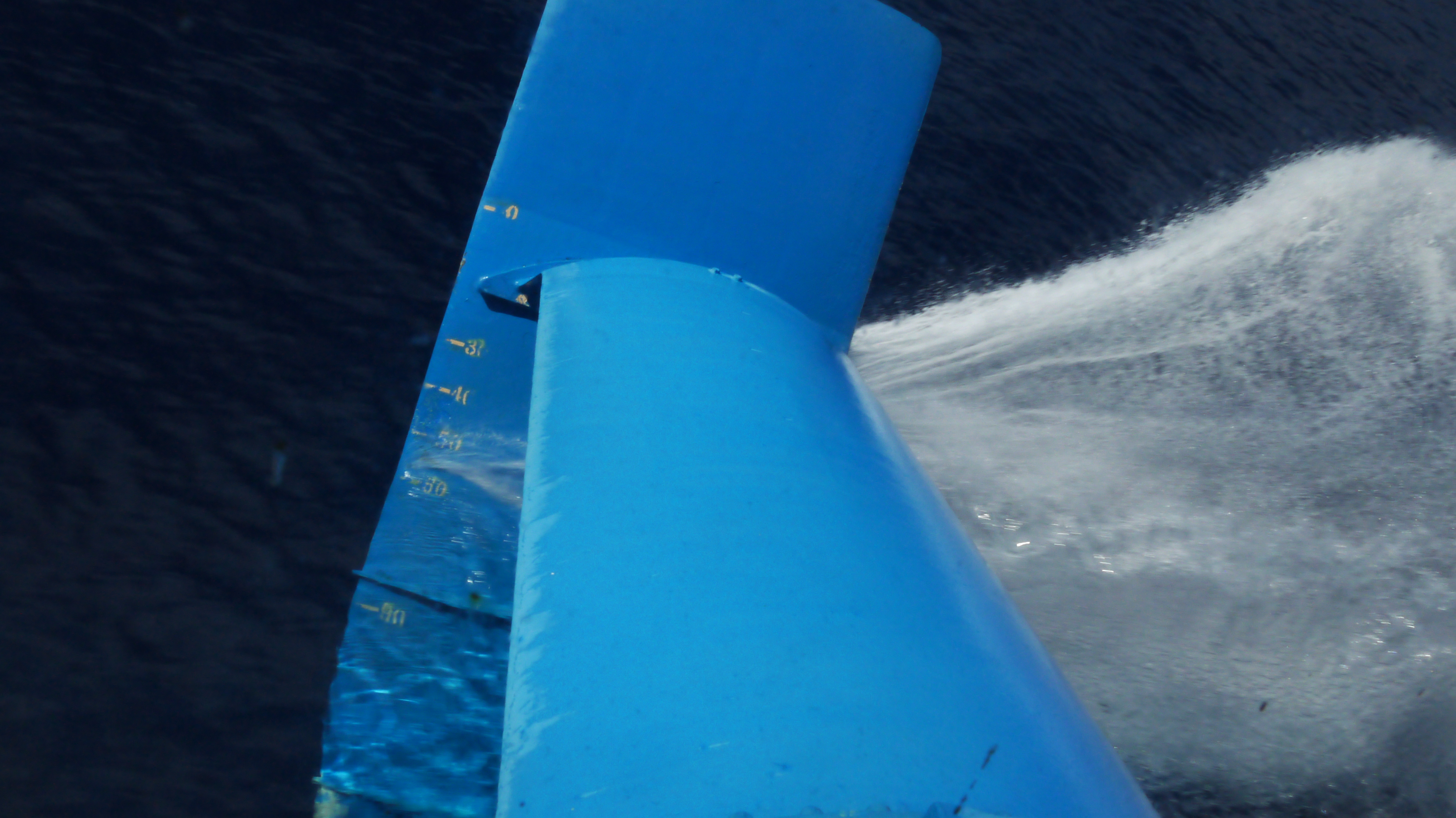 Front starboard hydrofoil of Foilmaster Eraclide, constructed by Cantieri Navali Rodriguez in 2005, at cruising speed